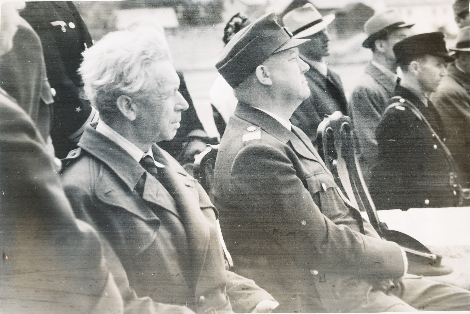 Cropped version of